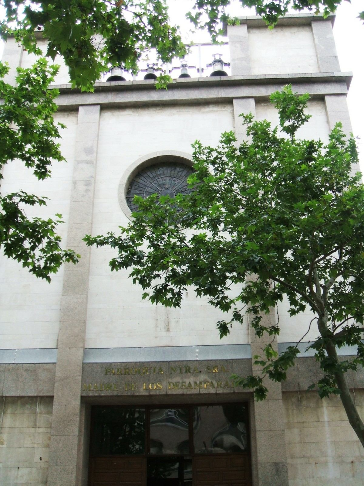 Iglesia Parroquial de Nuestra Señora de los Desamparados, Vitoria-Gasteiz, País Vasco, Vitoria